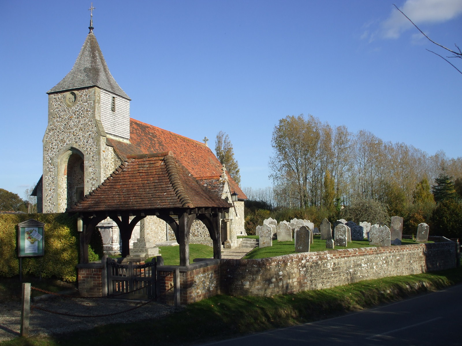 St Nicholas Church, West Itchenor, West Sussex, near to West Itchenor, West Sussex, Great Britain.